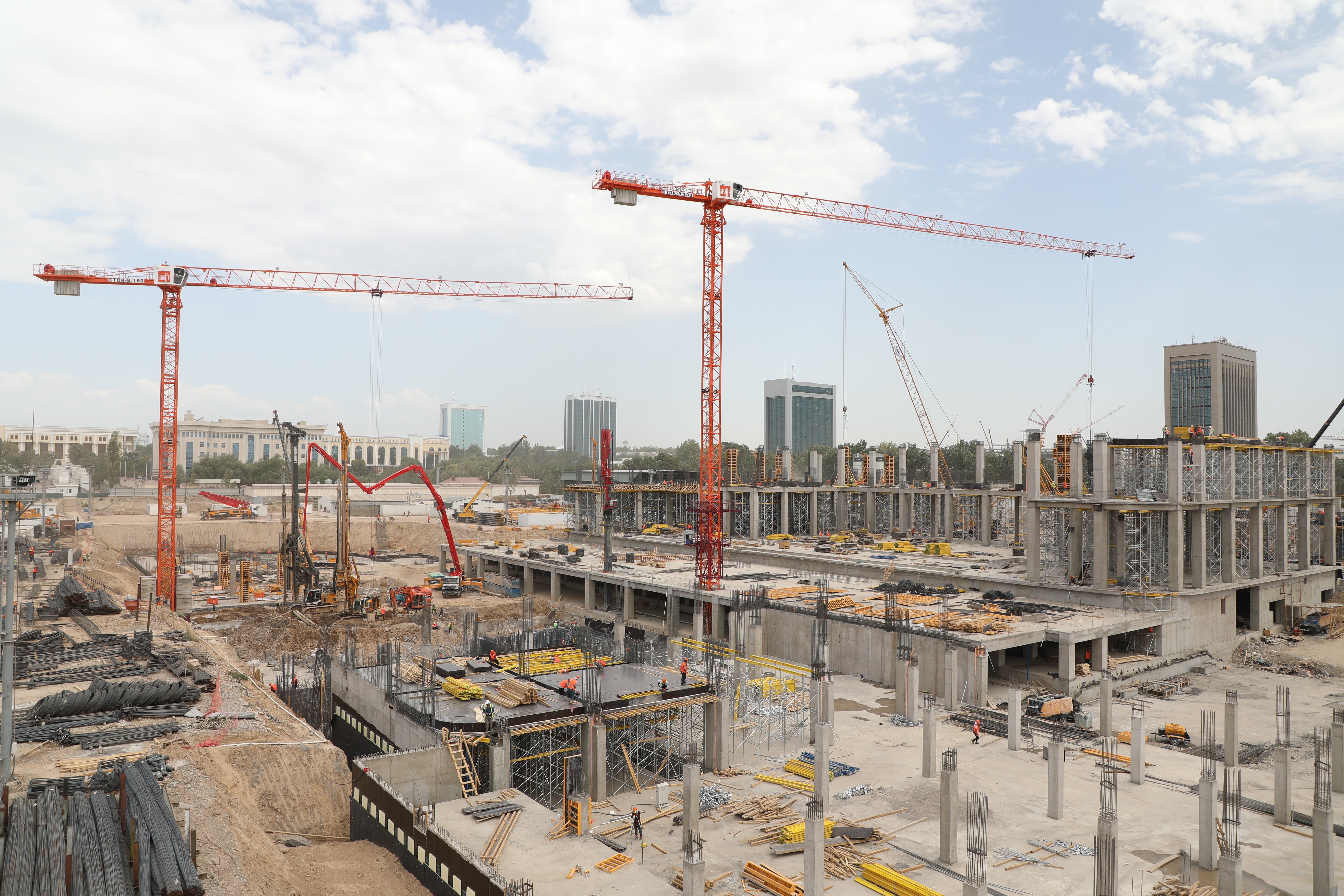 GIRAFFE